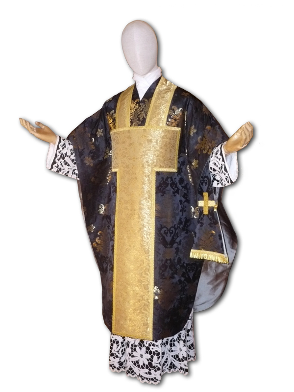 Borromaeo-style chasuble